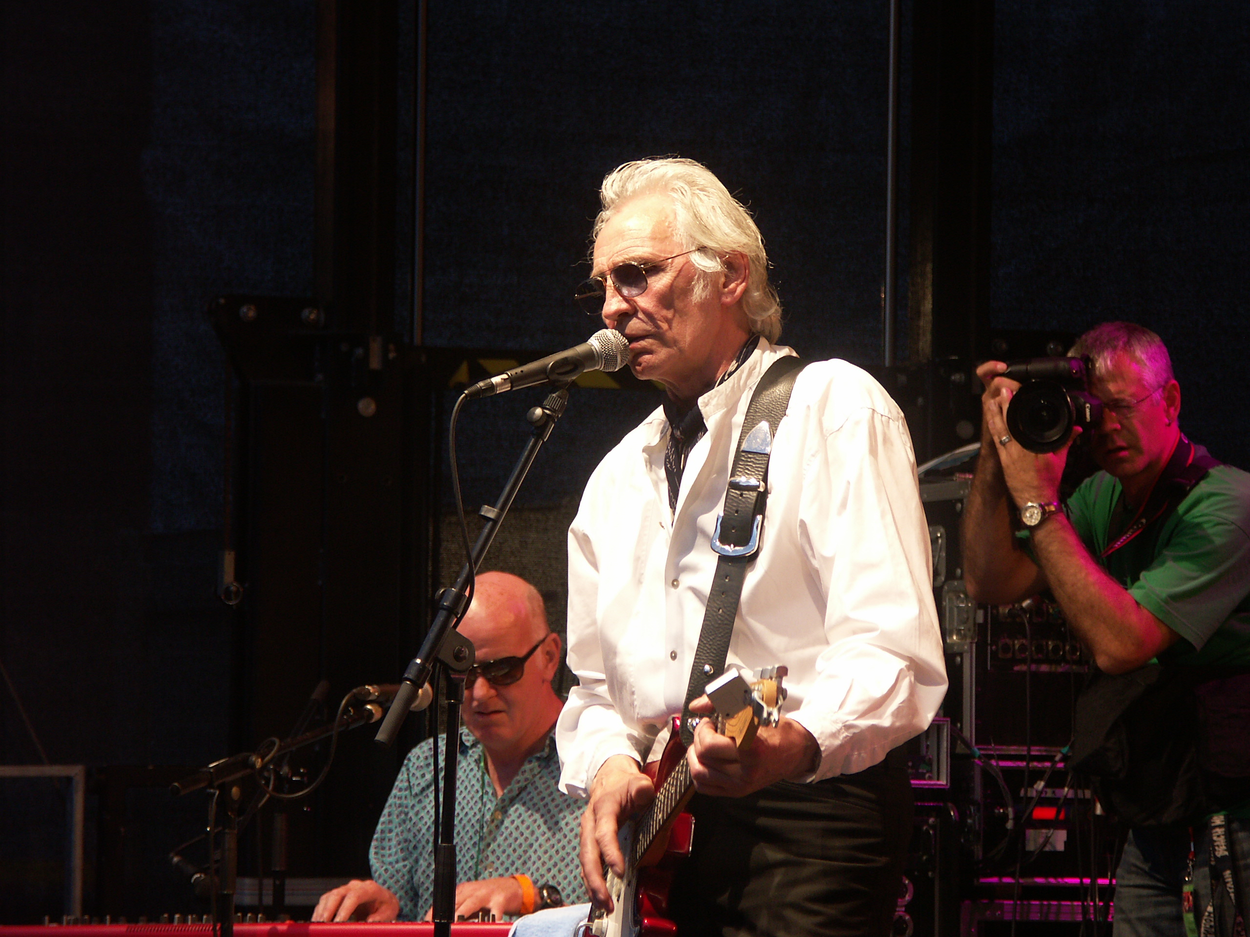 Steve Gibbons at the "Bardentreffen" festival 2009 at Nuremberg / Germany.